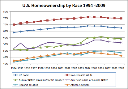 Used in Homeownership in the United States. Data derived from